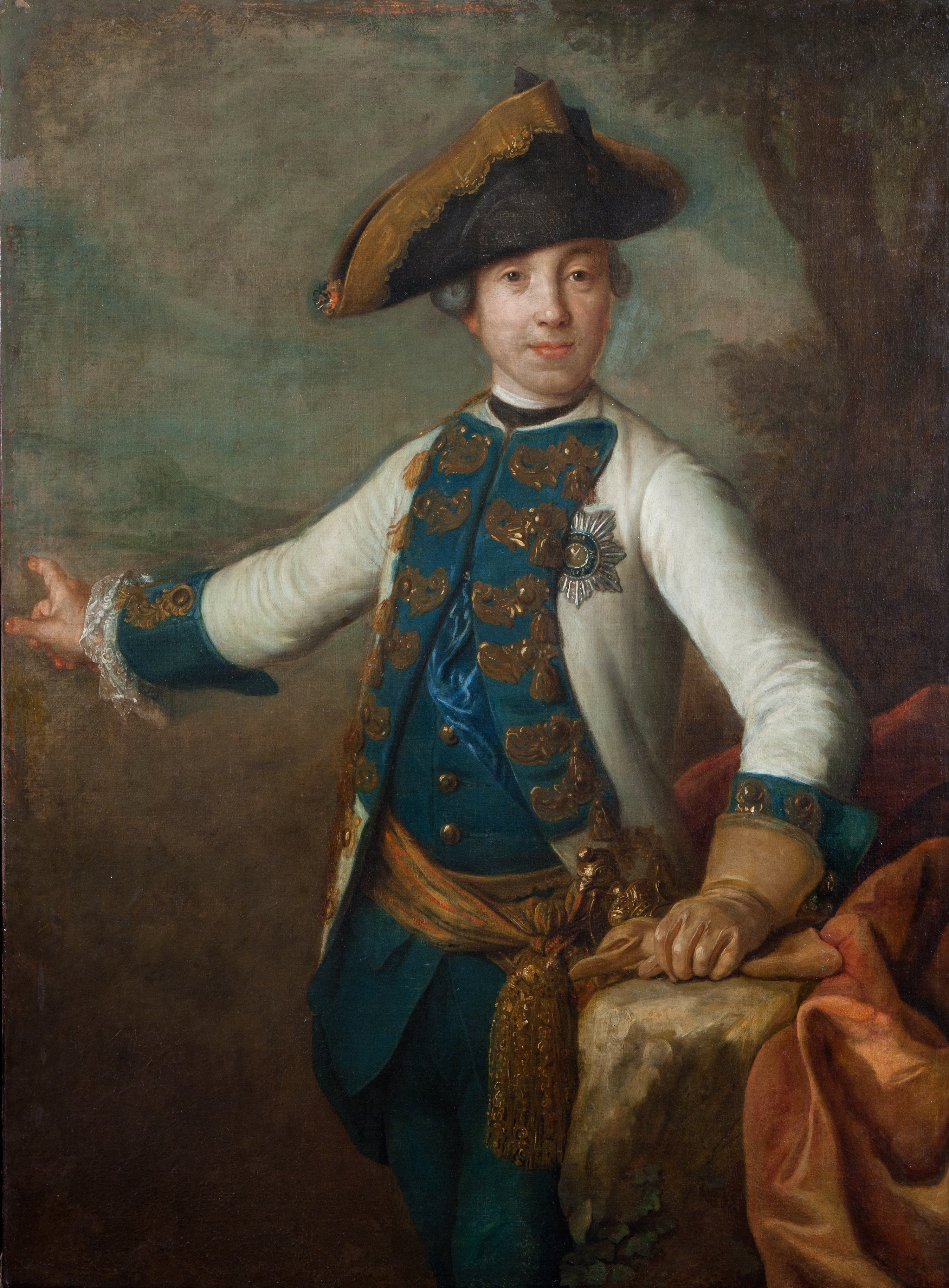 Portrait of Grand Duke Peter Fedorovich (Later Peter III of Russia). Pietro dei Rotary (?). Ministry of Culture of the Russian Federation, via Google Cultural Institute. Early 1760s.